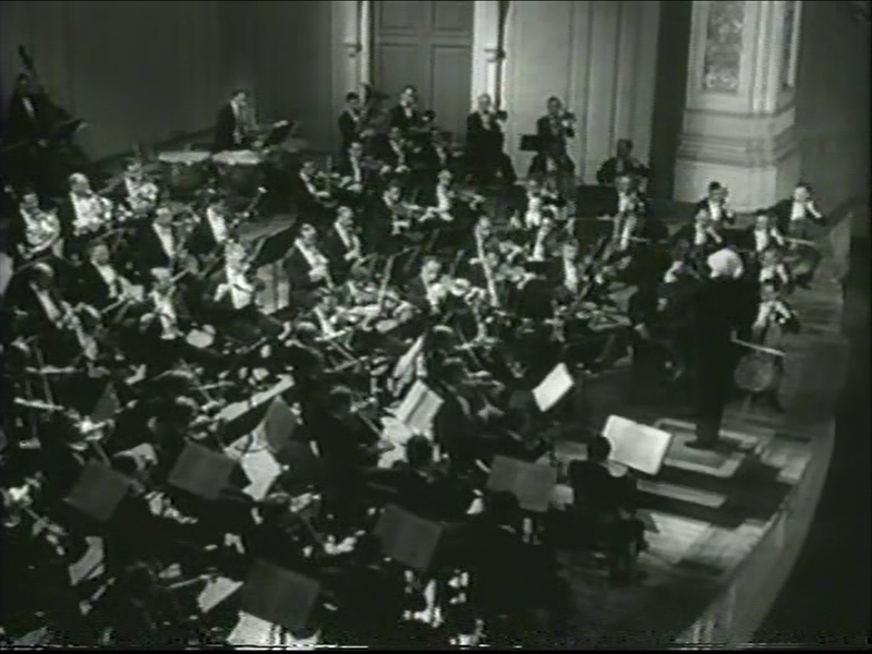 Leopold Stokowski with Orchestra from "Carnegie Hall".